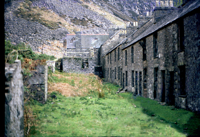 Nant Gwrtheyrn in 1972. A vintage photograph of The Welsh Language School taken on a student film making trip to the area in the spring of 1972. After a successful fund raising effort the derelict quarry village was bought in 1978 and eventually opened for courses in 1982. for a detailed history of the village and its site.